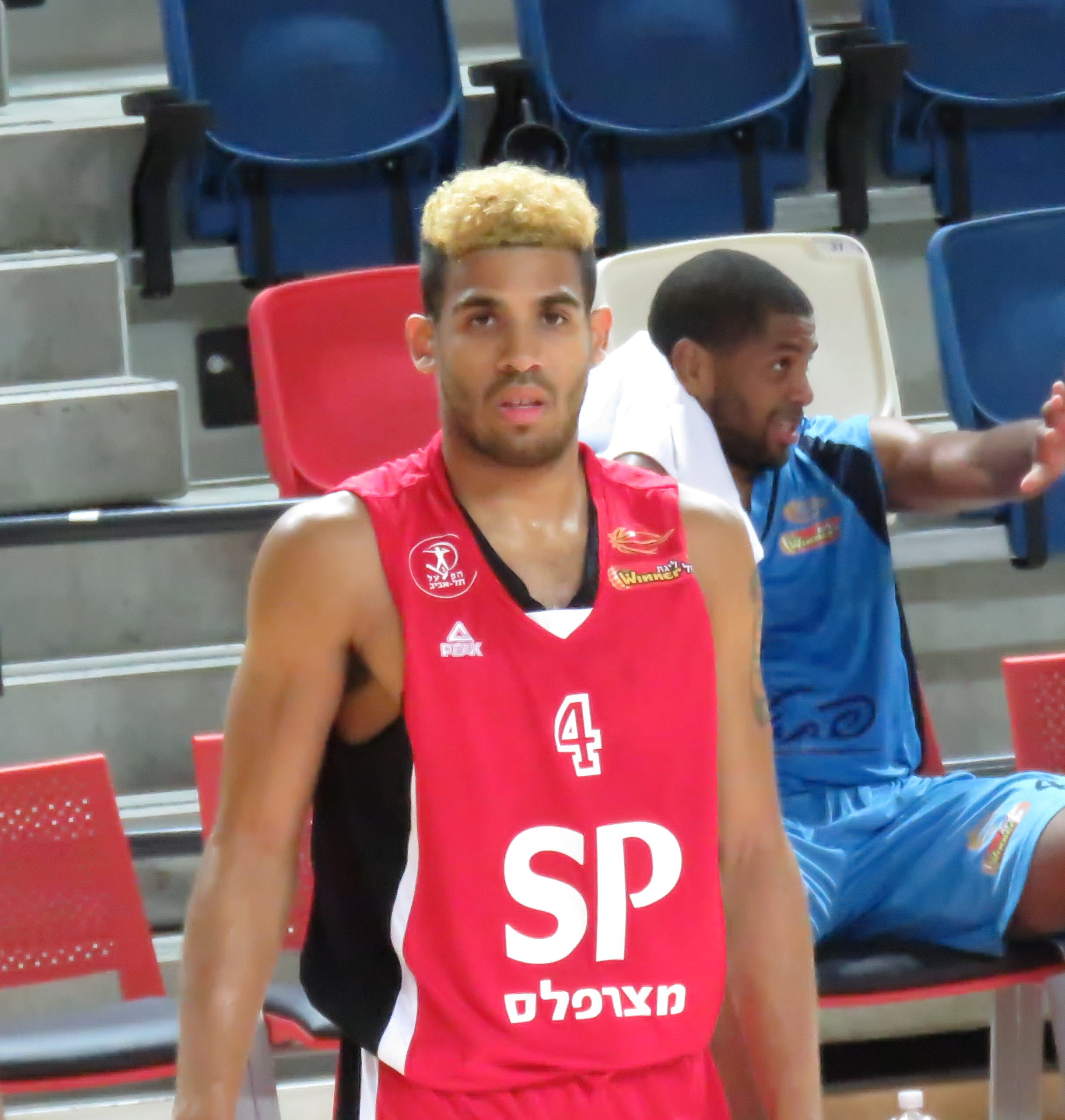 Hapoel Tel Aviv vs. Hapoel Eilat - Pre-season friendly, Septeber 11, 2015